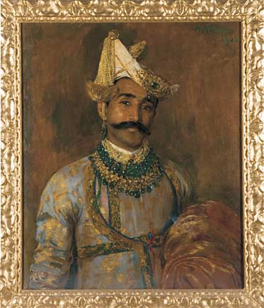 HH Maharaja Sadashiv Rao Puar of Dewas Jr